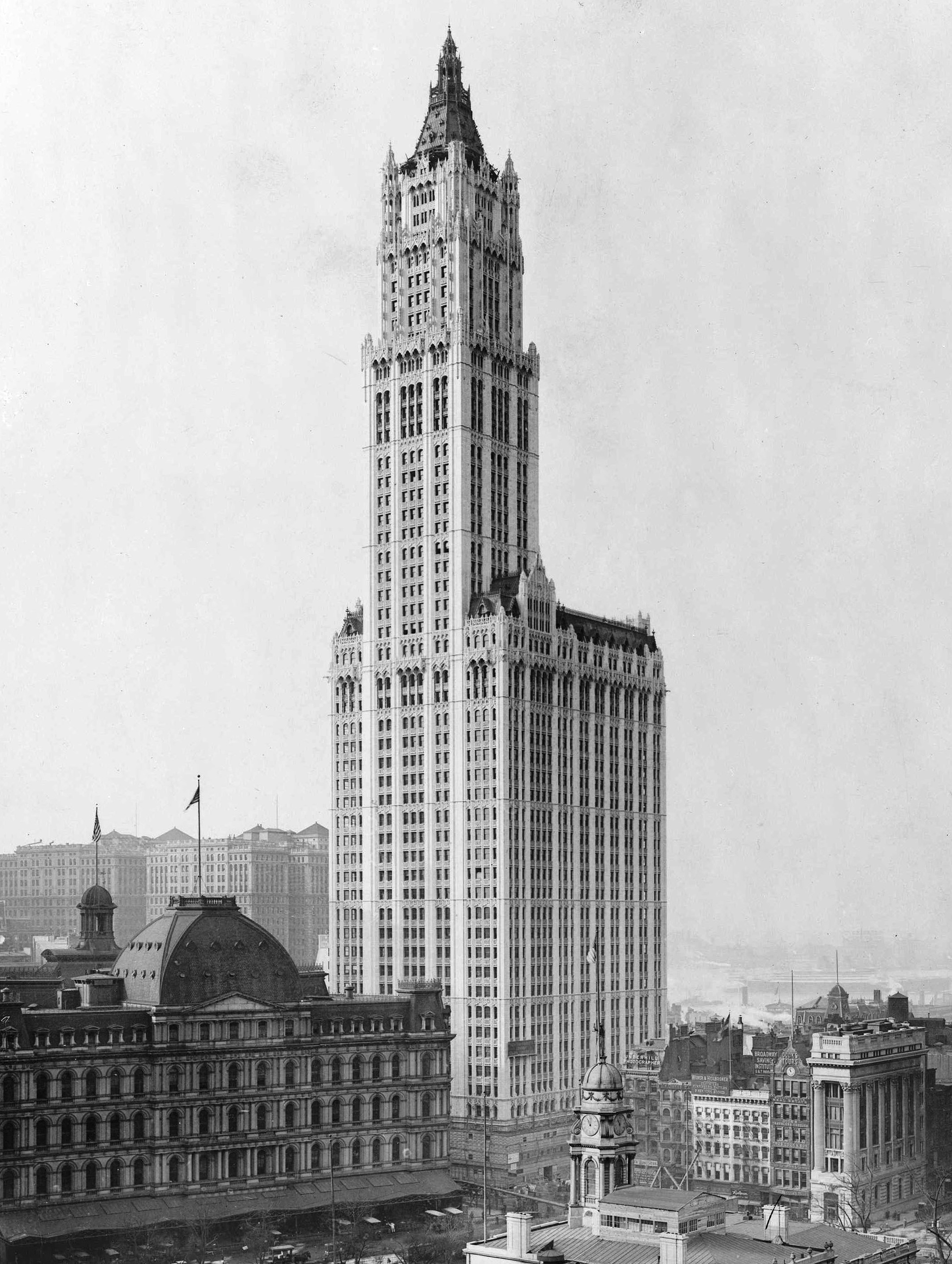 View of Woolworth Building and surrounding buildings, New York City